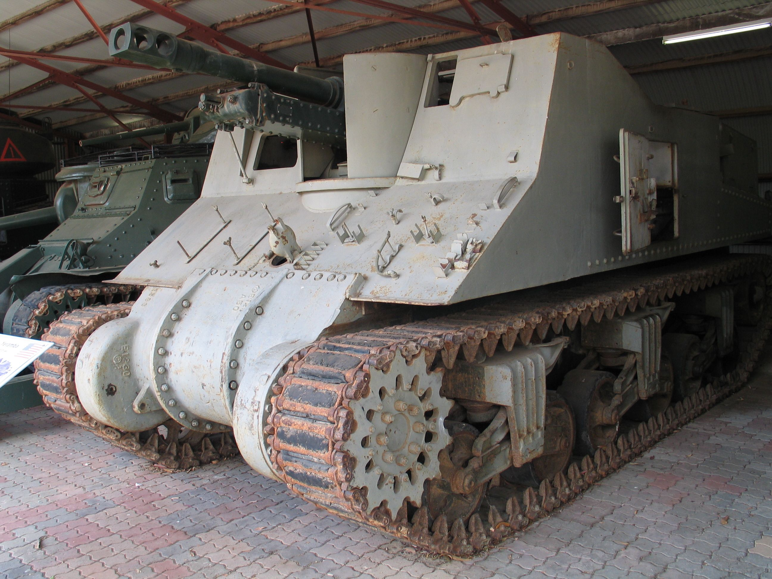 Yeramba SP gun in Royal Australian Armoured Corps Tank Museum, Puckapunyal, Victoria, Australia.